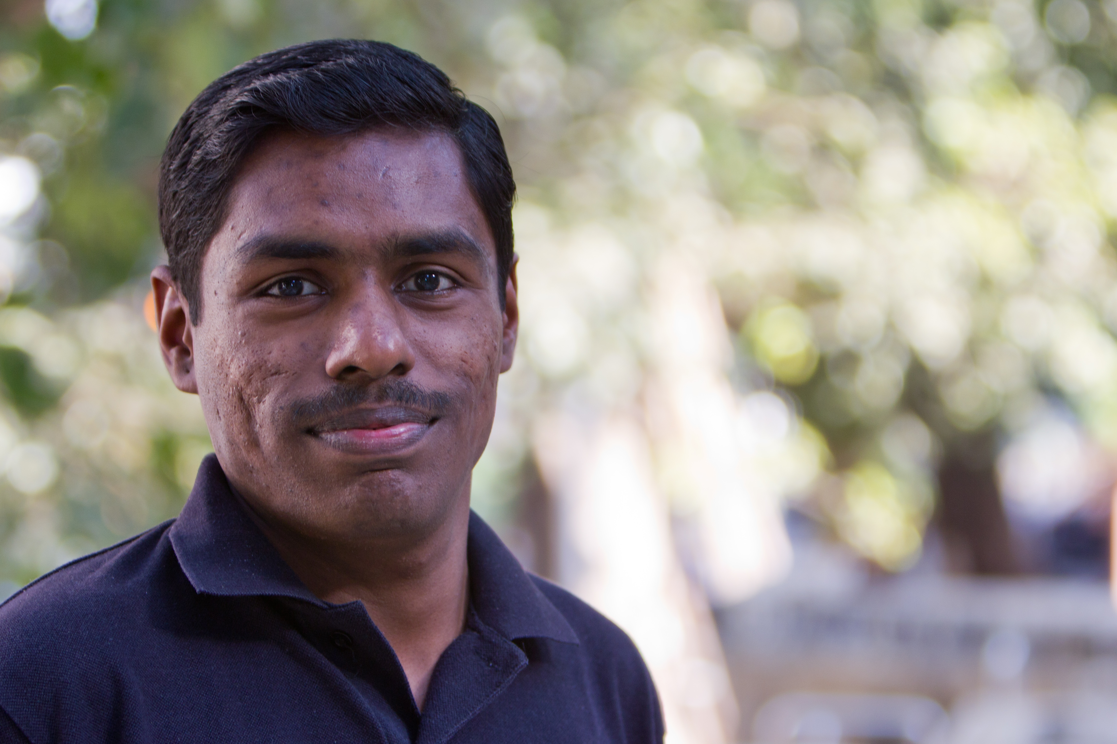 Santhosh Thottingal